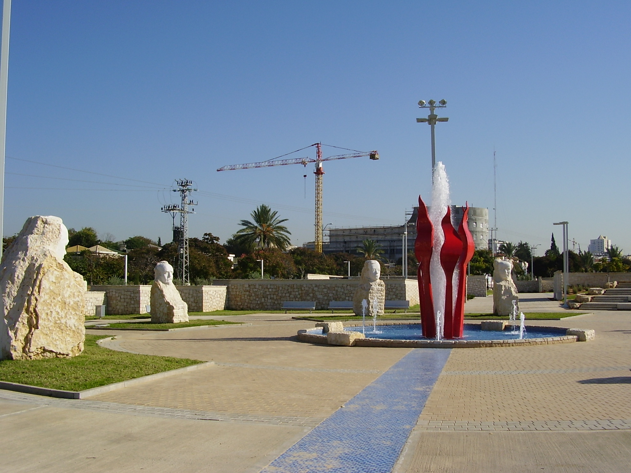 The Water&Flames fountain, Park of the Leaders of the Nation, Rishon LeZion, Israel